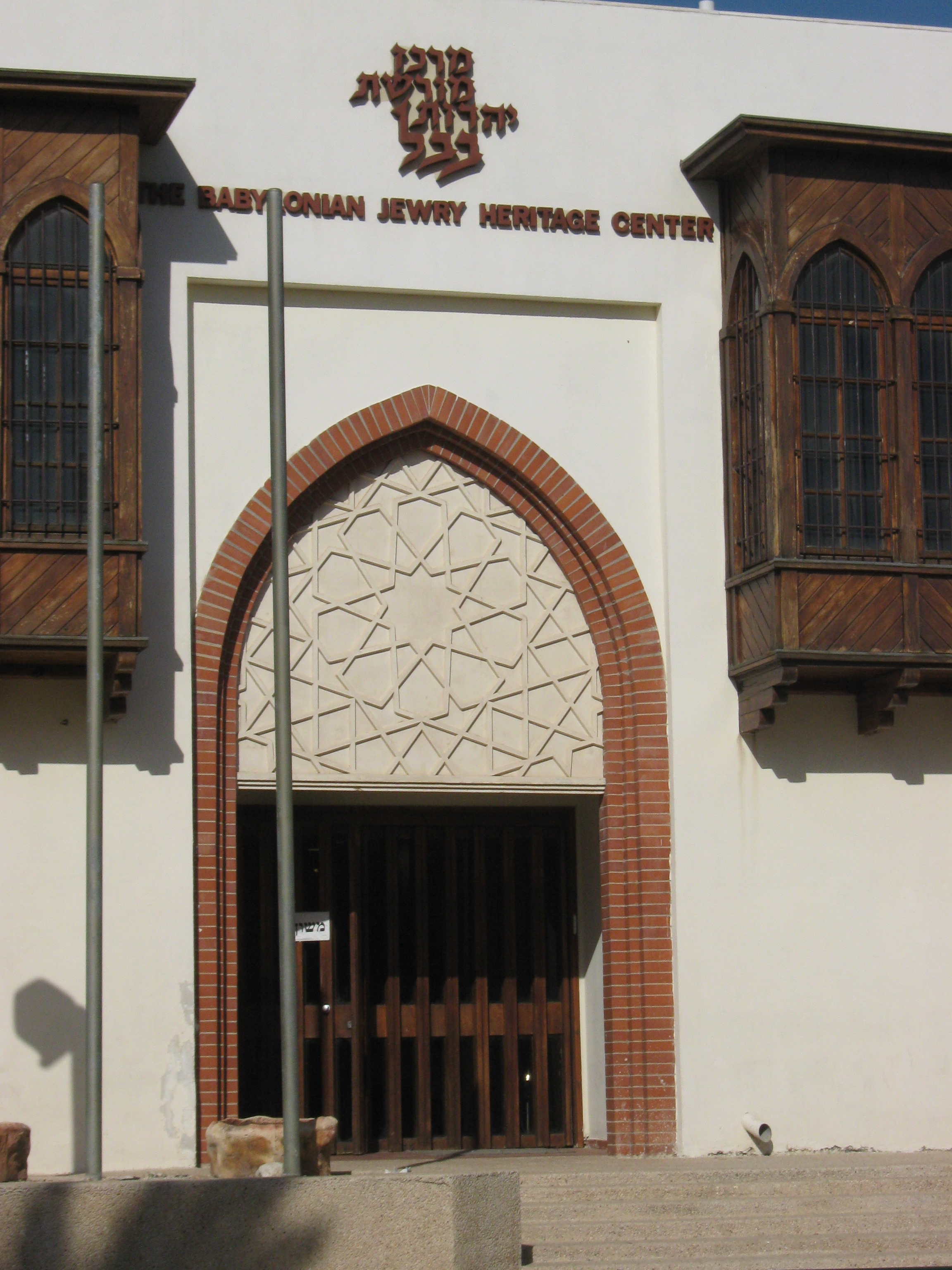 Cities in Israel